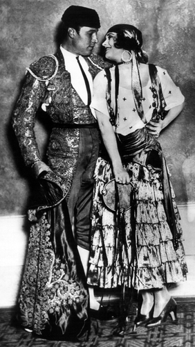 Pola Negri with Rudolph Valentino, costume-ball of the Sixty Club at the Hotel Ambassador in Los Angeles.